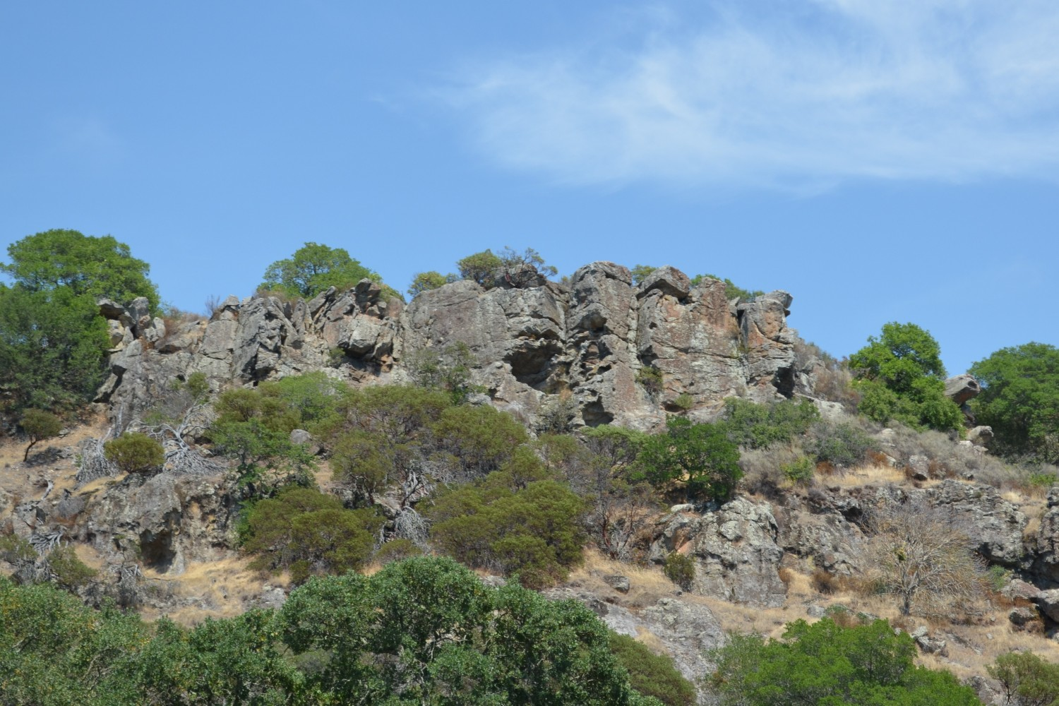 outcrop of the Sonoma Volcanics exposed at Rockville Park, Solano County, California